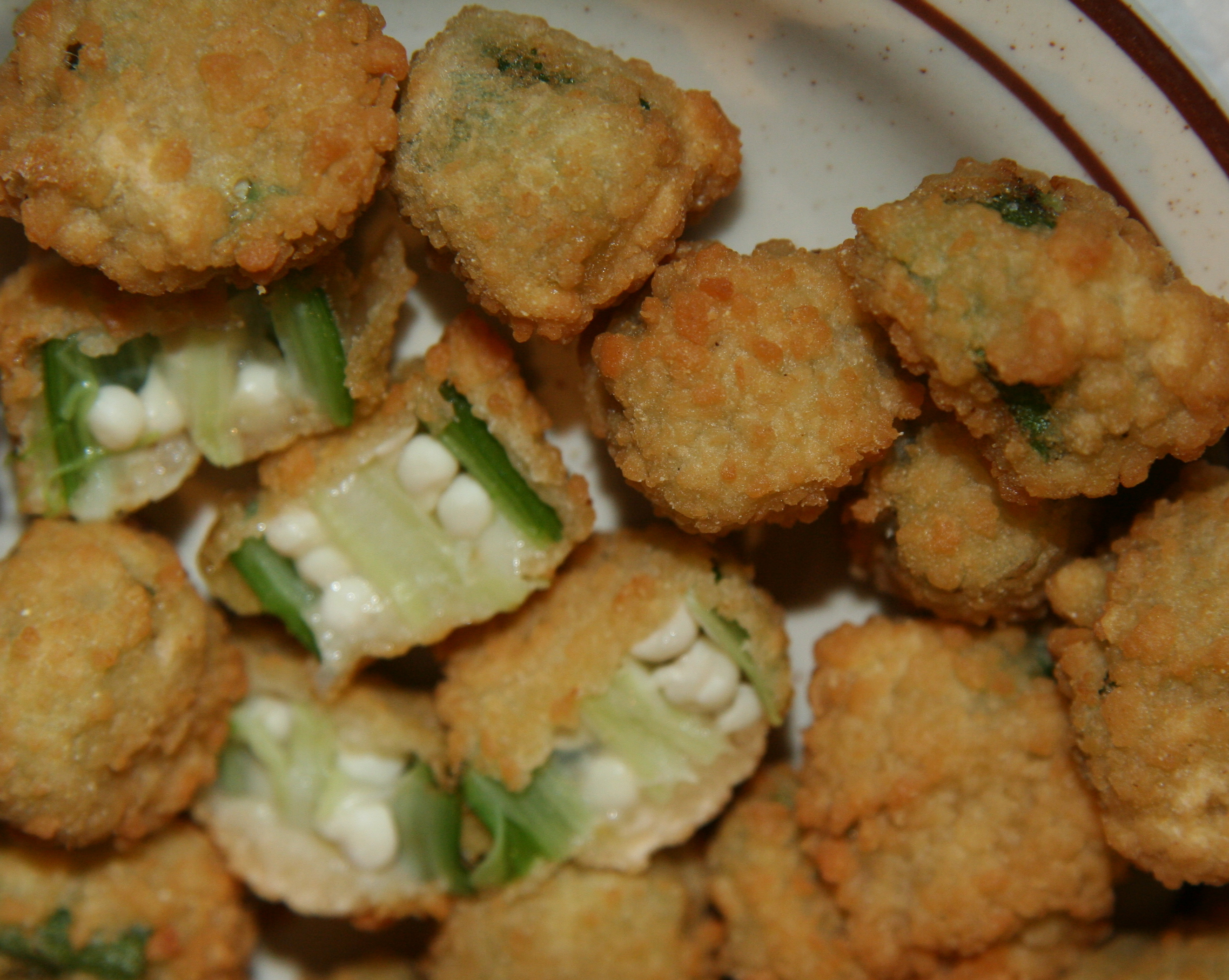 Deep-fried battered okra slices served at Slippery's Bar in Wabasha, Minnesota